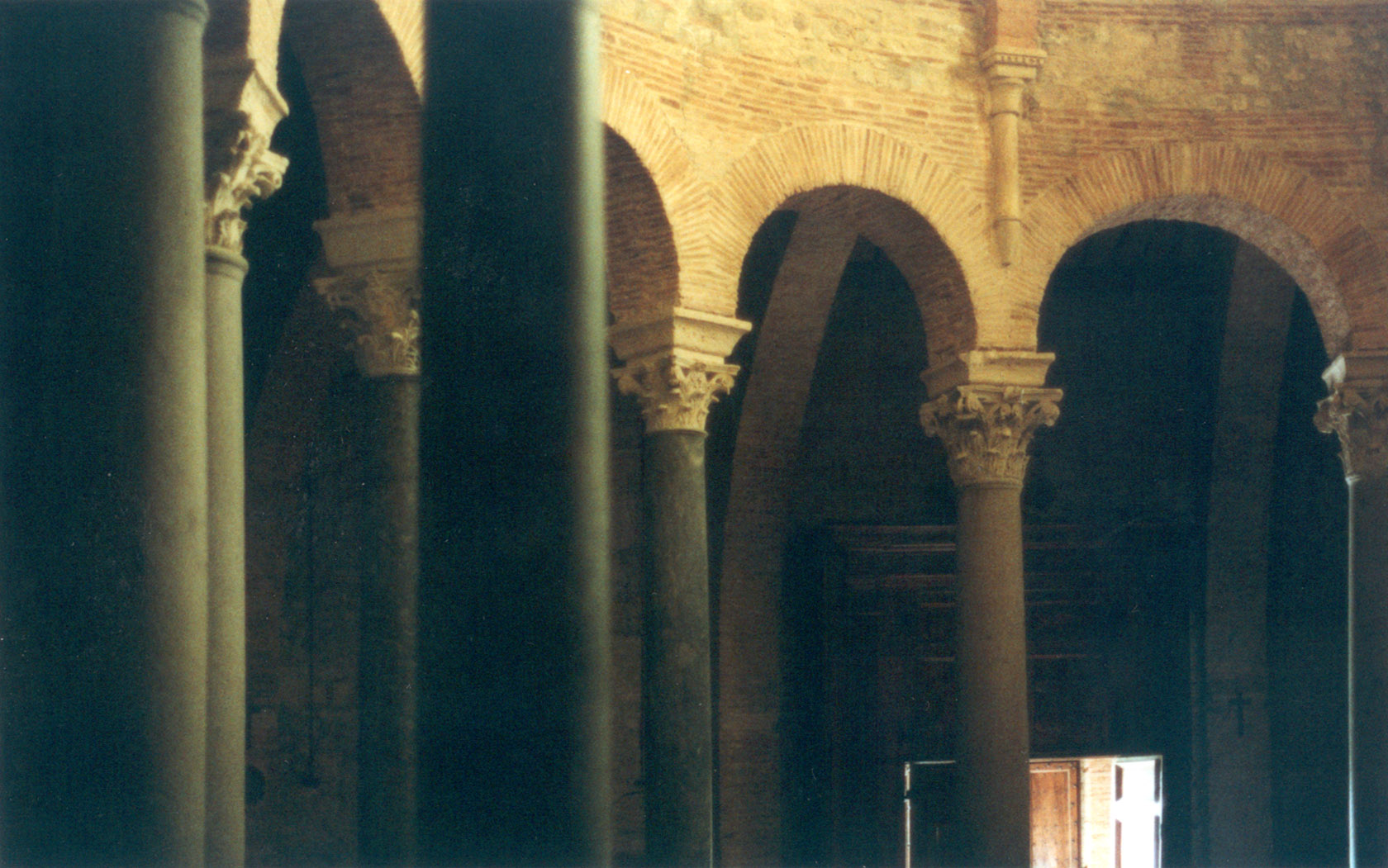 Following the original description by the author: 'chiesa di Sant'Angelo, Perugia, on the Byzantine route between Ravenna and Rome. scan of photo taken with disposable camera.'